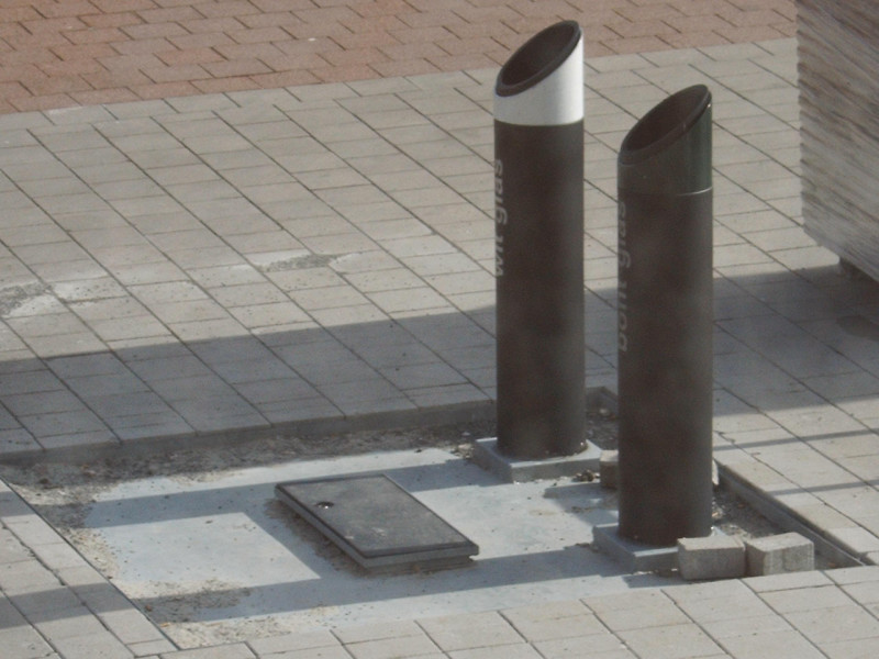 two tubes leading to a glass container at basement level - emptying can be done by bulling the container out with two rings that are hidden under the central rectangle - Location: Berchem station square (Emiel Ryckaertplein), Antwerp, Belgium